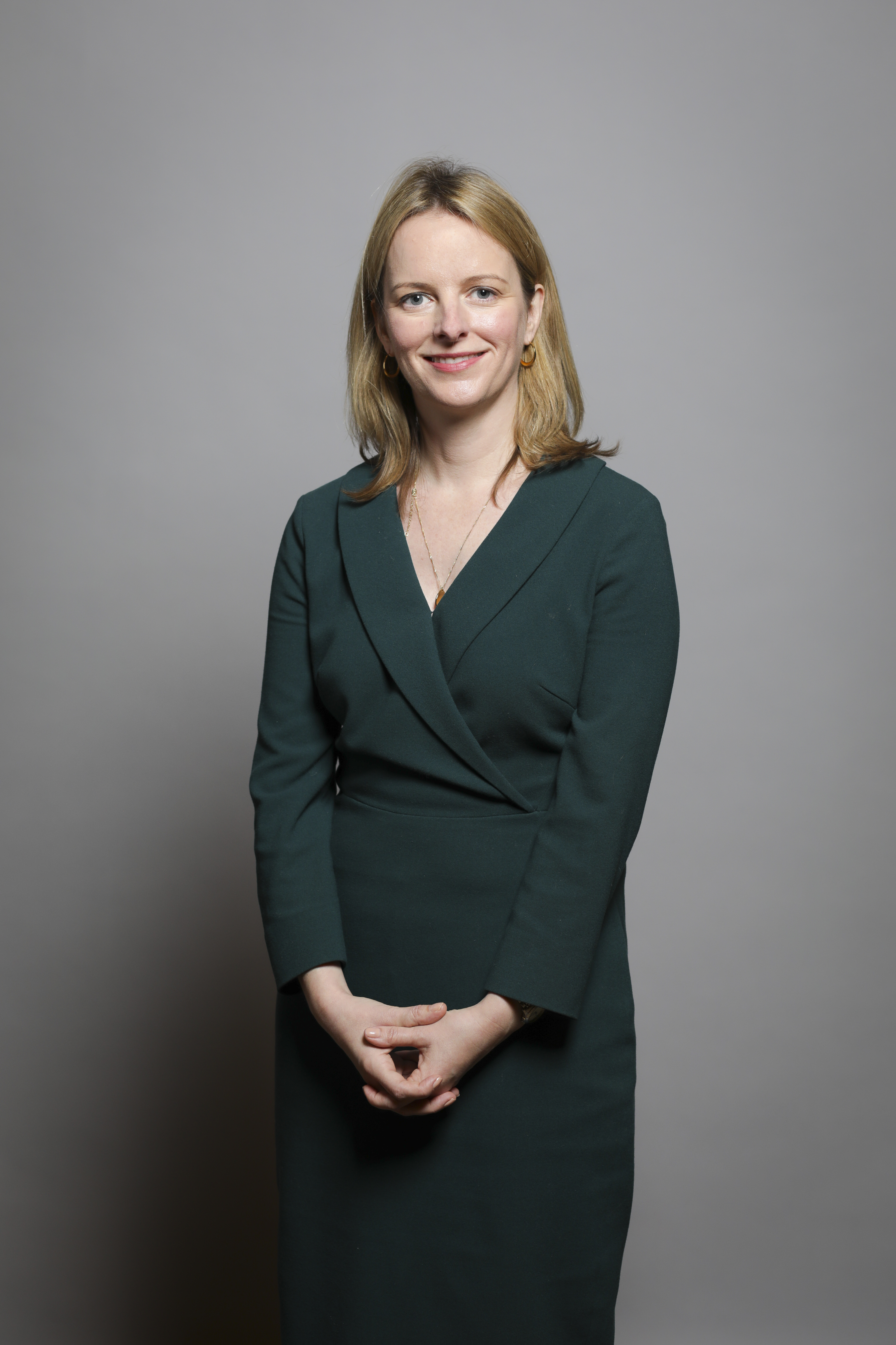 Official portrait of Baroness Wyld Full sized portrait of Baroness Wyld